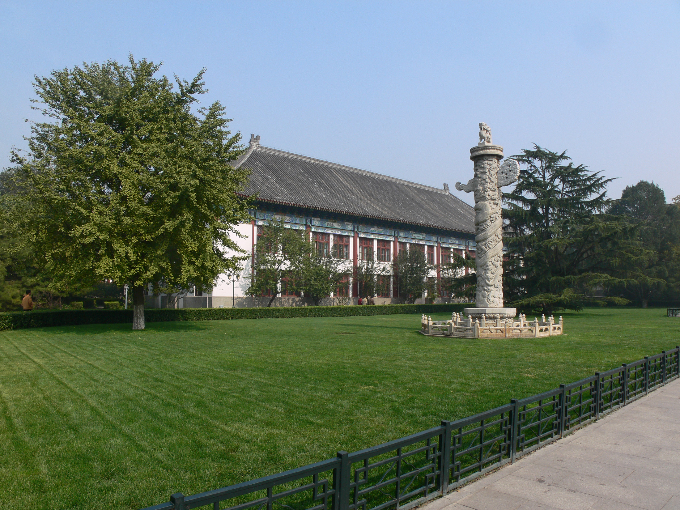 Peking University campus